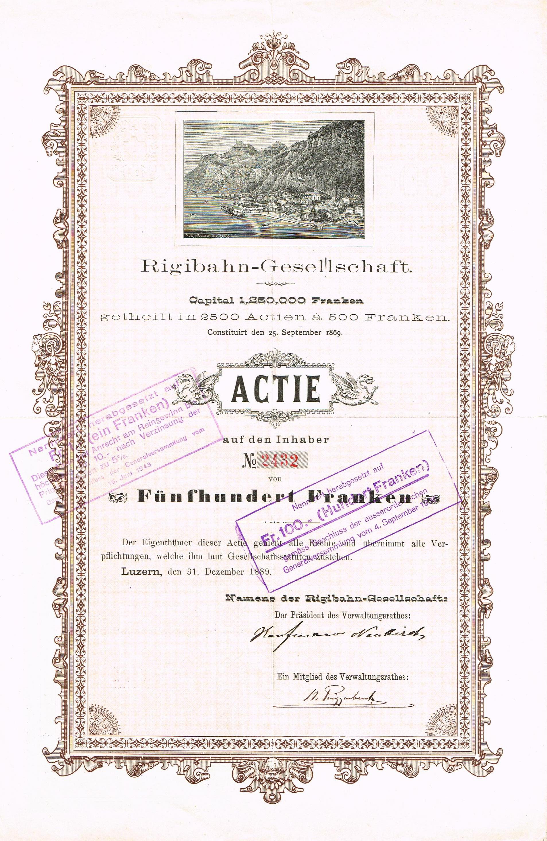 Share of the Rigibahn-Gesellschaft, issued 31. December 1889